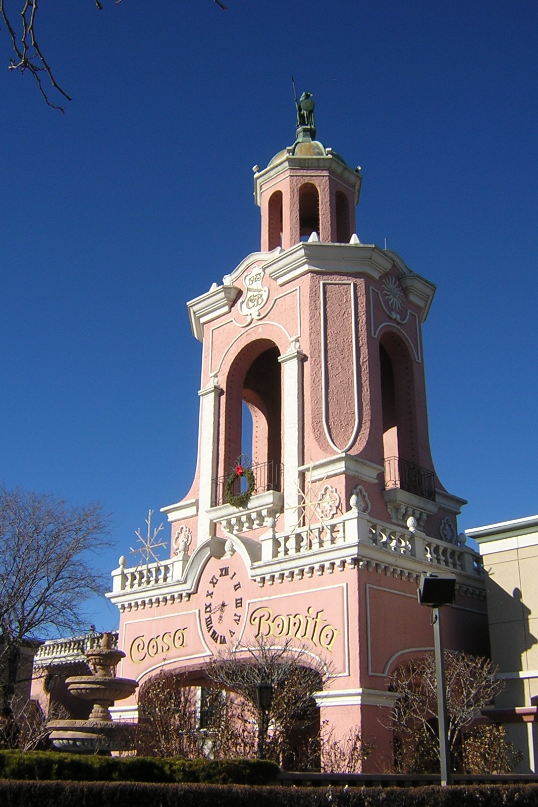 Photo of Casa Bonita in Lakewood, Colorado. Photo taken by me (MisterHand) on December 29, 2005.